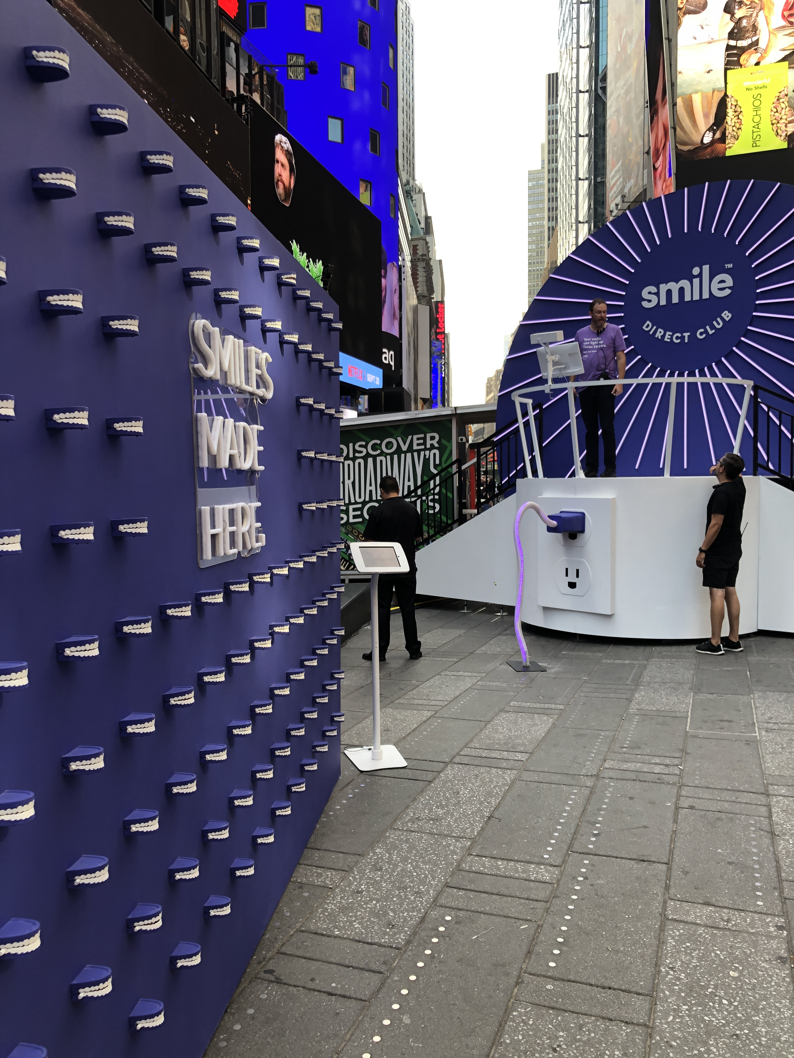 SmileDirectClub harnesses the power of a smile in New York's Times Square, leveraging facial recognition technology to power an electronic billboard when people grinned atop a podium.